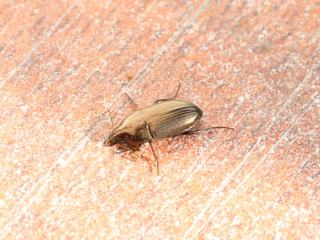 Amara ovata. Found in Riga town, Latvia